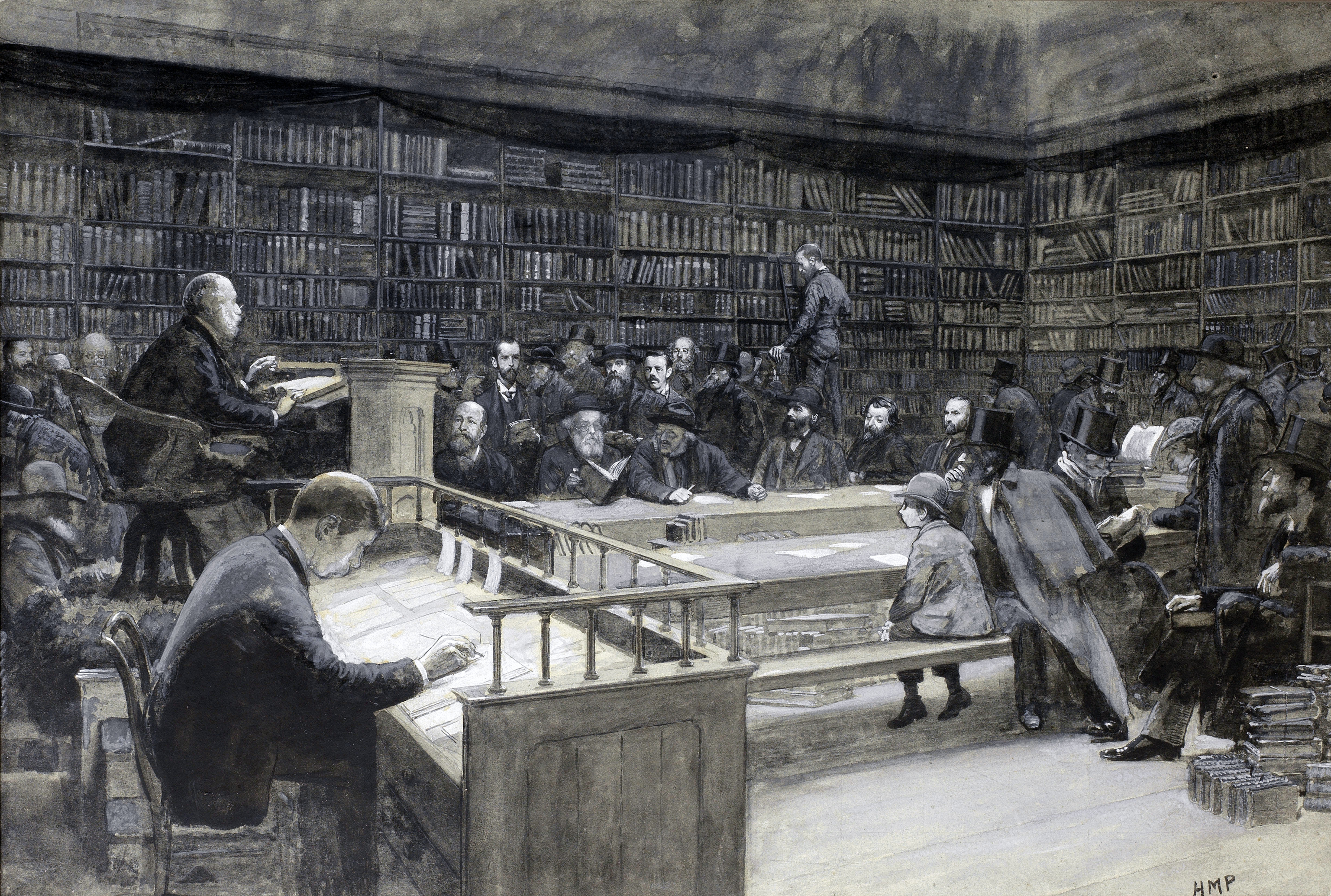 Drawing of a book sale in progress at Messrs Sotheby, Wilkinson & Hodge of Wellington Street, the Strand, conducted by the Chairman, E.G. Hodge, with Bernard Quaritch and other booksellers in attendance, signed "H.M.P.". Most of the buyers present can be identified as the principal antiquarian booksellers of their day.